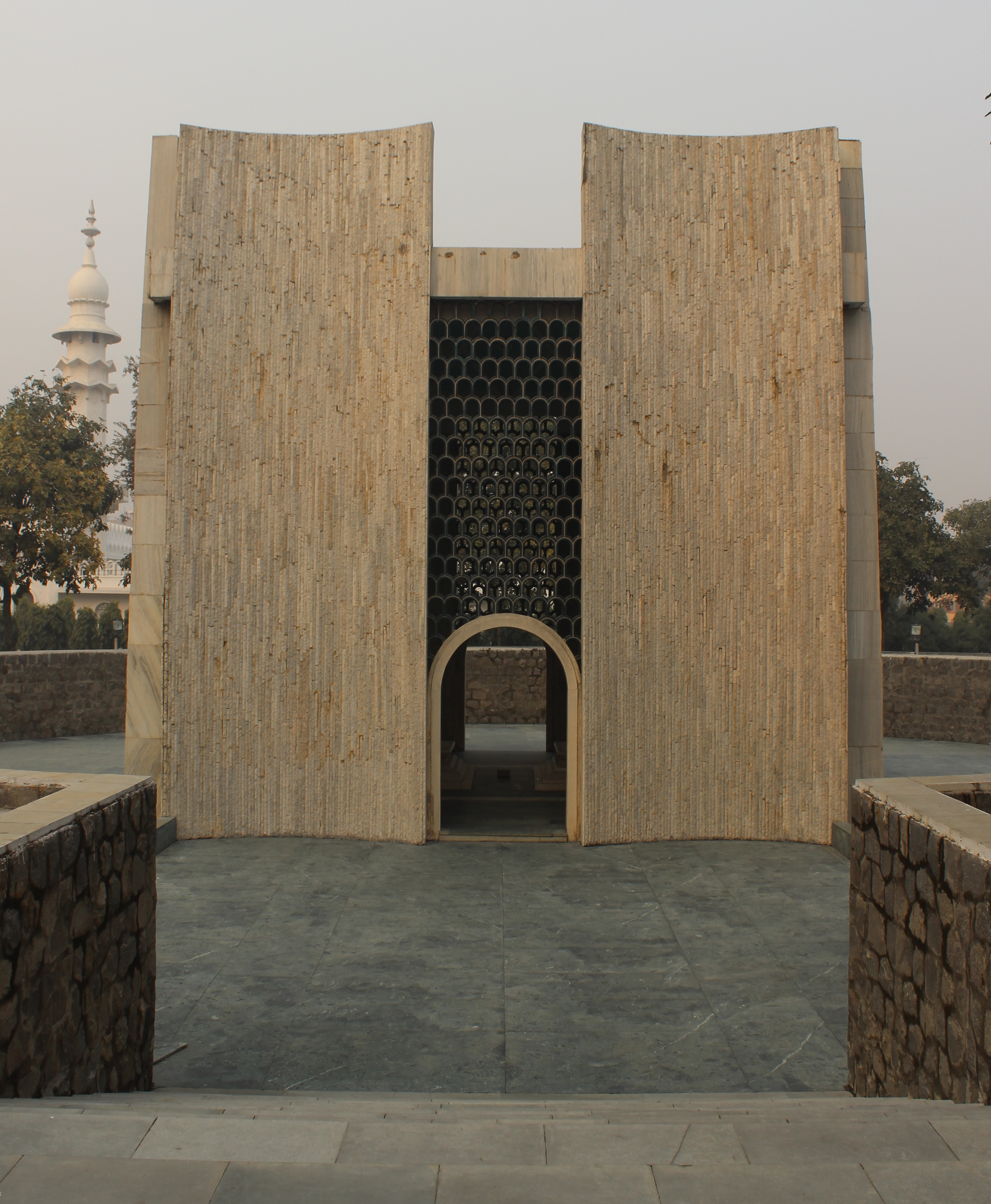 Zakir Husain's Mausoleum